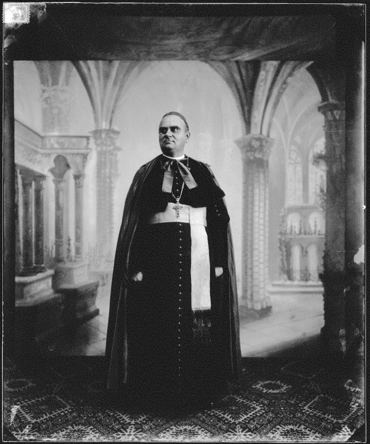 Eduard Brynych, bishop of Hradec Králové